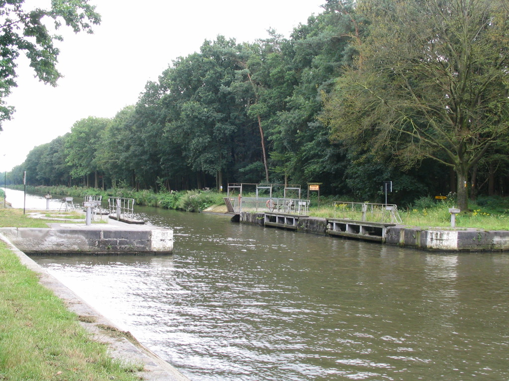 Stop or safety lock on the canal Schoten-Dessel at Ravels, Belgium